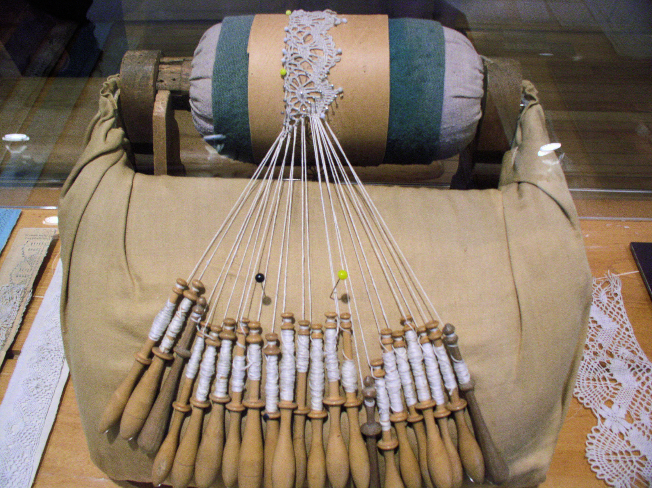 This is bobbin lacework in progress.